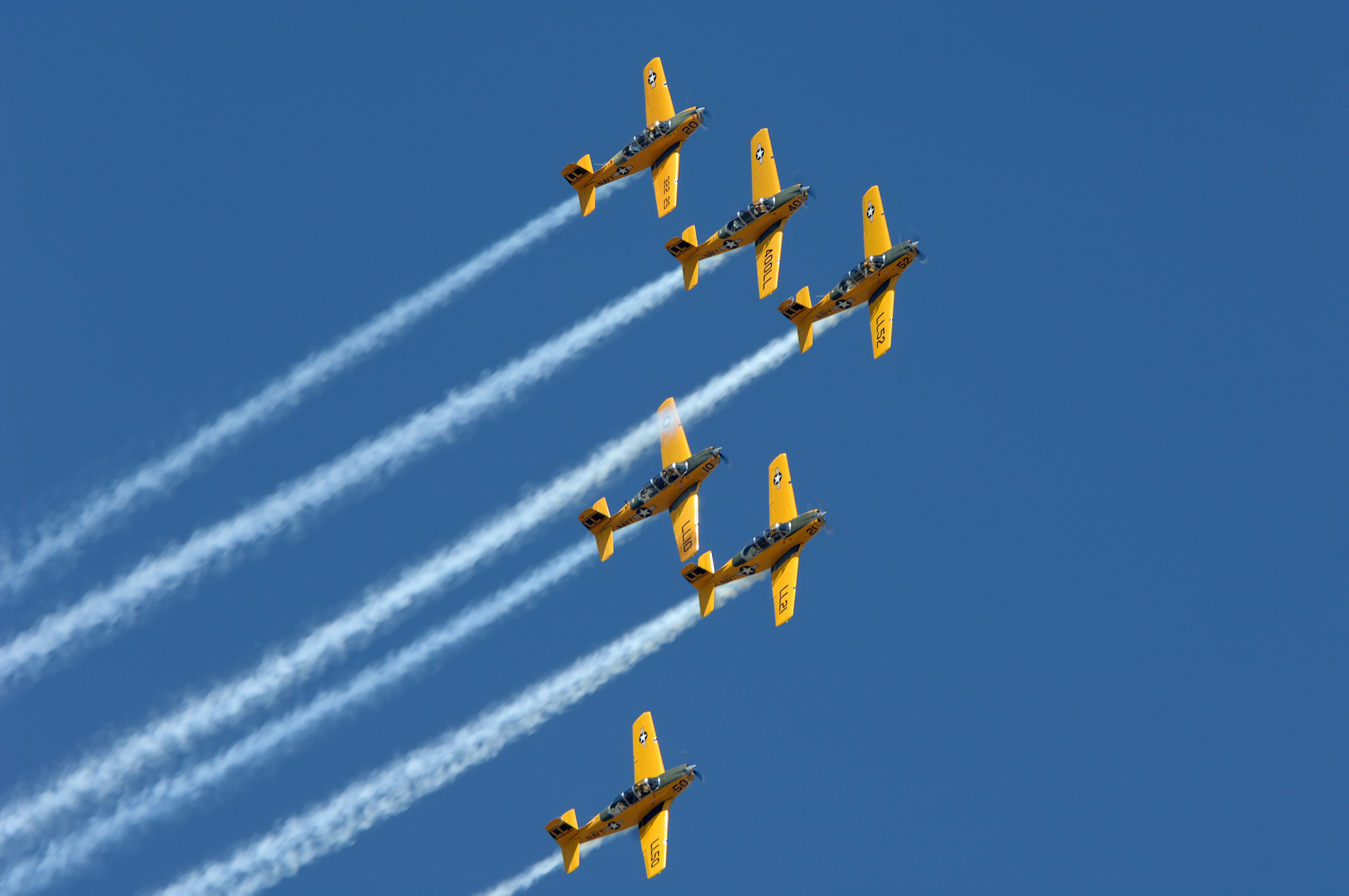 Lima Lima Flight team performing at Thunder over Louisville. Thunder opens a two week celebration which ends with the Kentucky Derby, on the first Saturday in May.